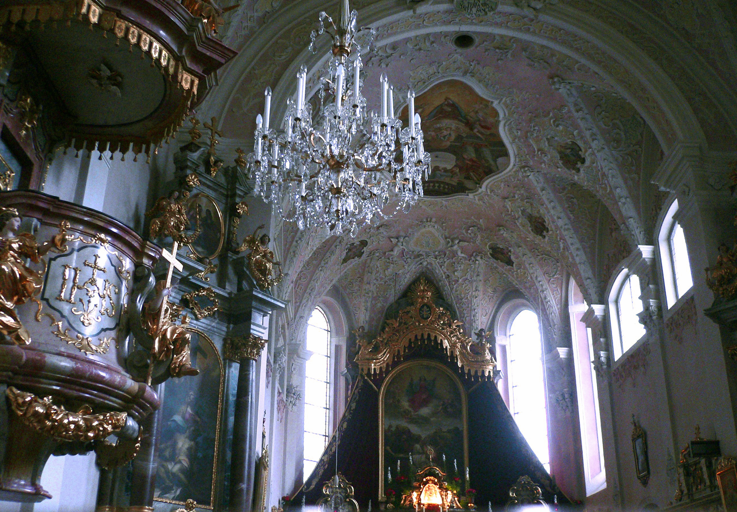 Maria Luggau